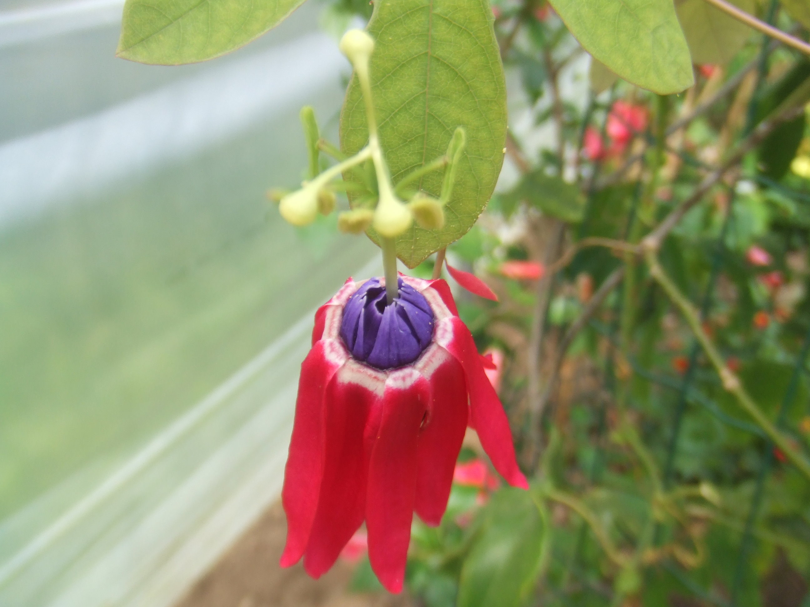 Passiflora edmundoi, picture taken at the Passiflorahoeve in Harskamp, The Netherlands